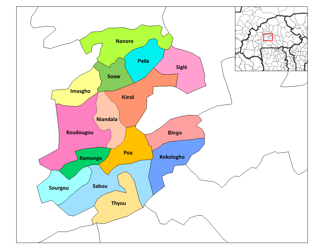 This map has been uploaded by Osiris fancy from to enable the Wikimedia Atlas of the World. Original uploader to was Rarelibra. Osiris fancy is not the creator of this map. Licensing information is below. Map of the departments of Boulkiemde province in Burkina Faso. Created by Rarelibra 03:13, 30 September 2006 (UTC) for public domain use, using MapInfo Professional v8.5 and various mapping resources.